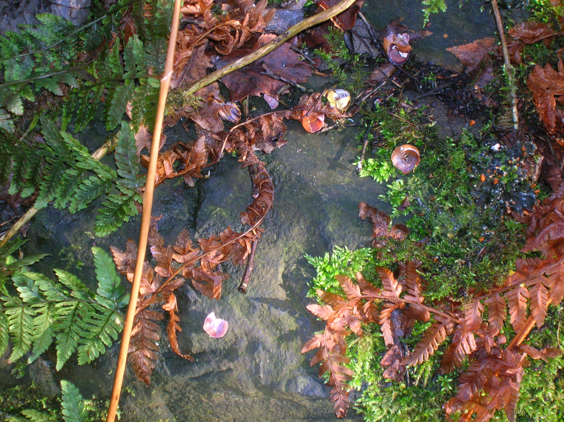 A Song Thrush anvil at Eglinton, Irvine, Ayrshire, Scotland